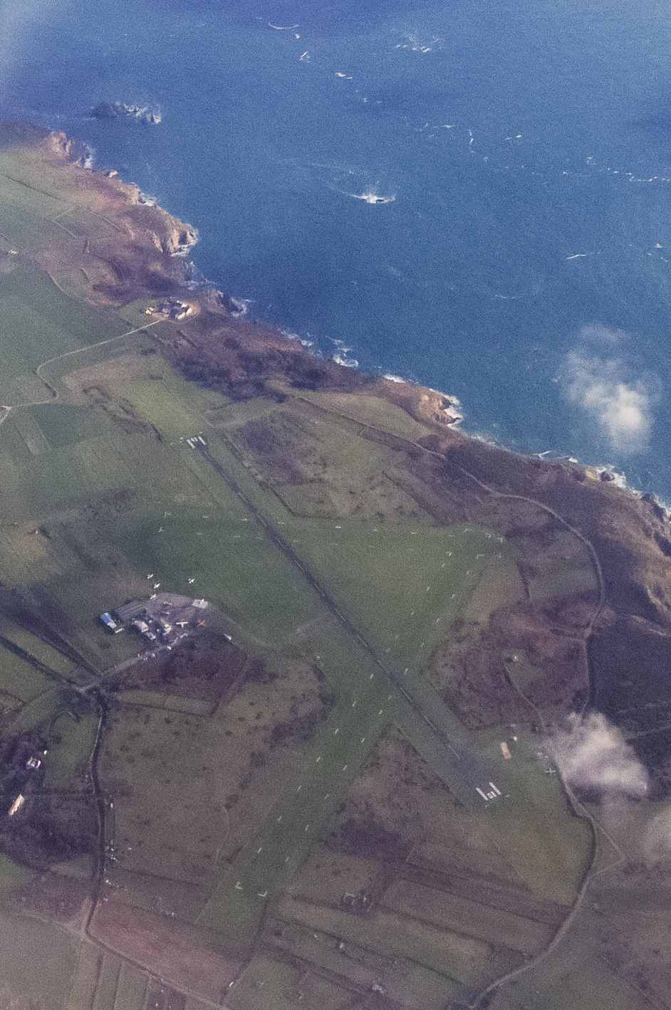 Arial view of Alderney Airport.